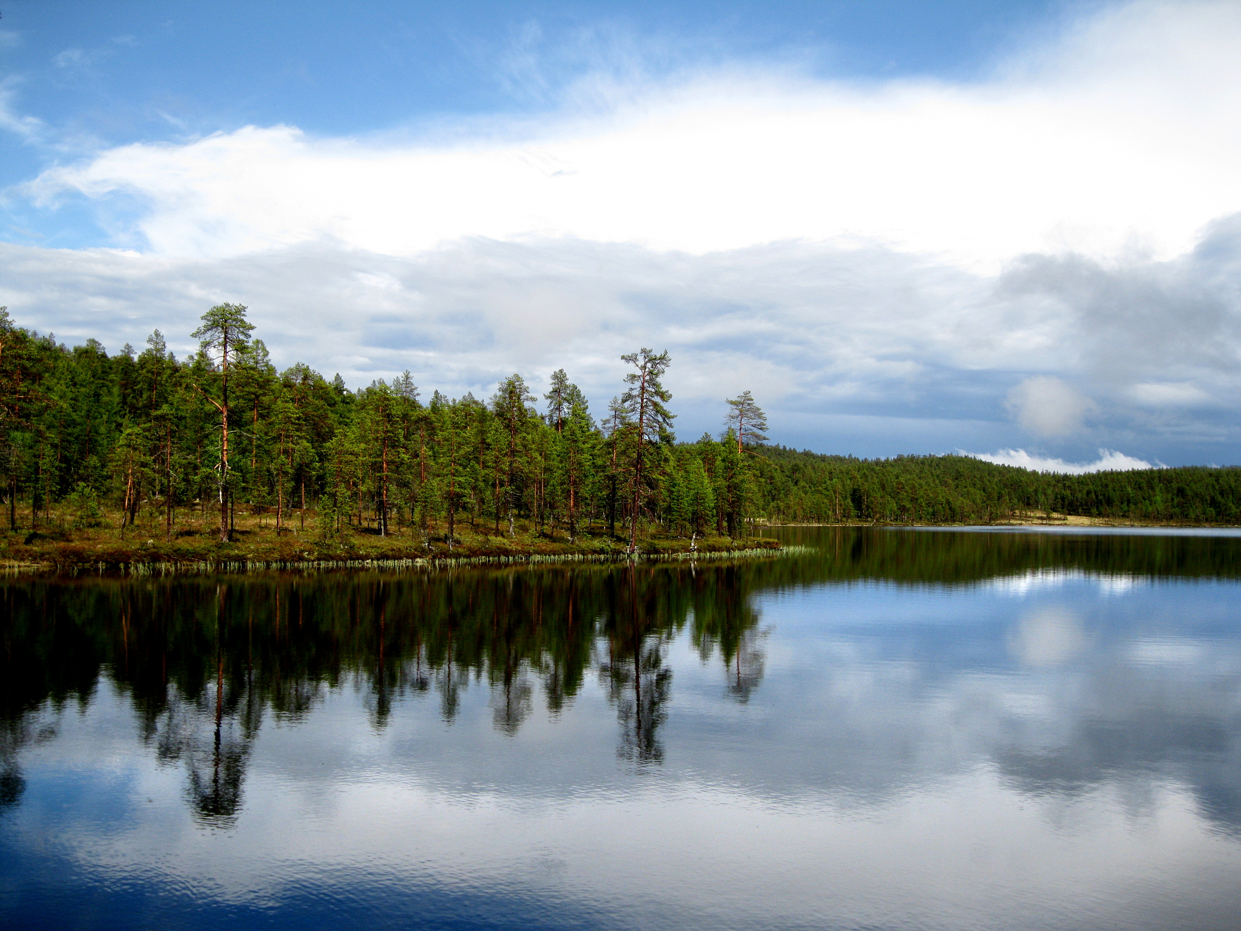 Tsarmitunturi Wilderness Area in June 2012.